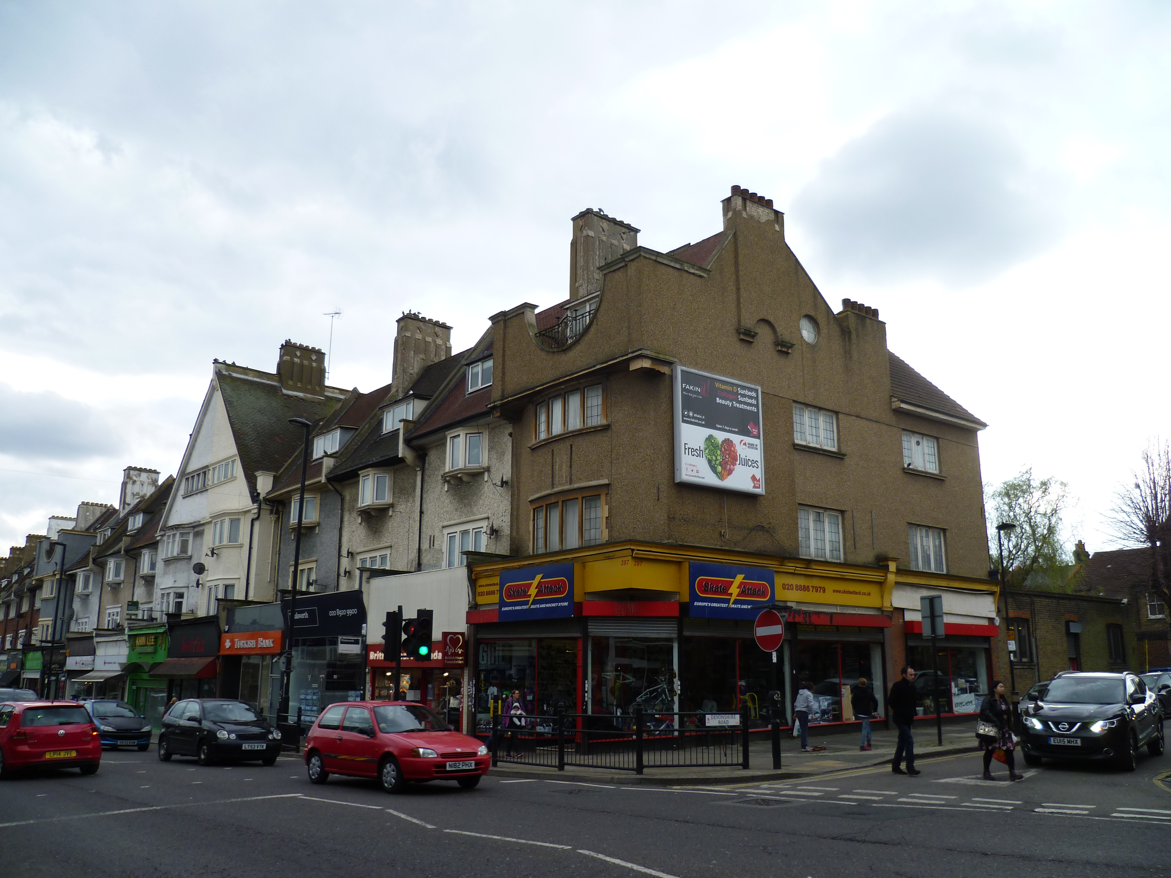 London